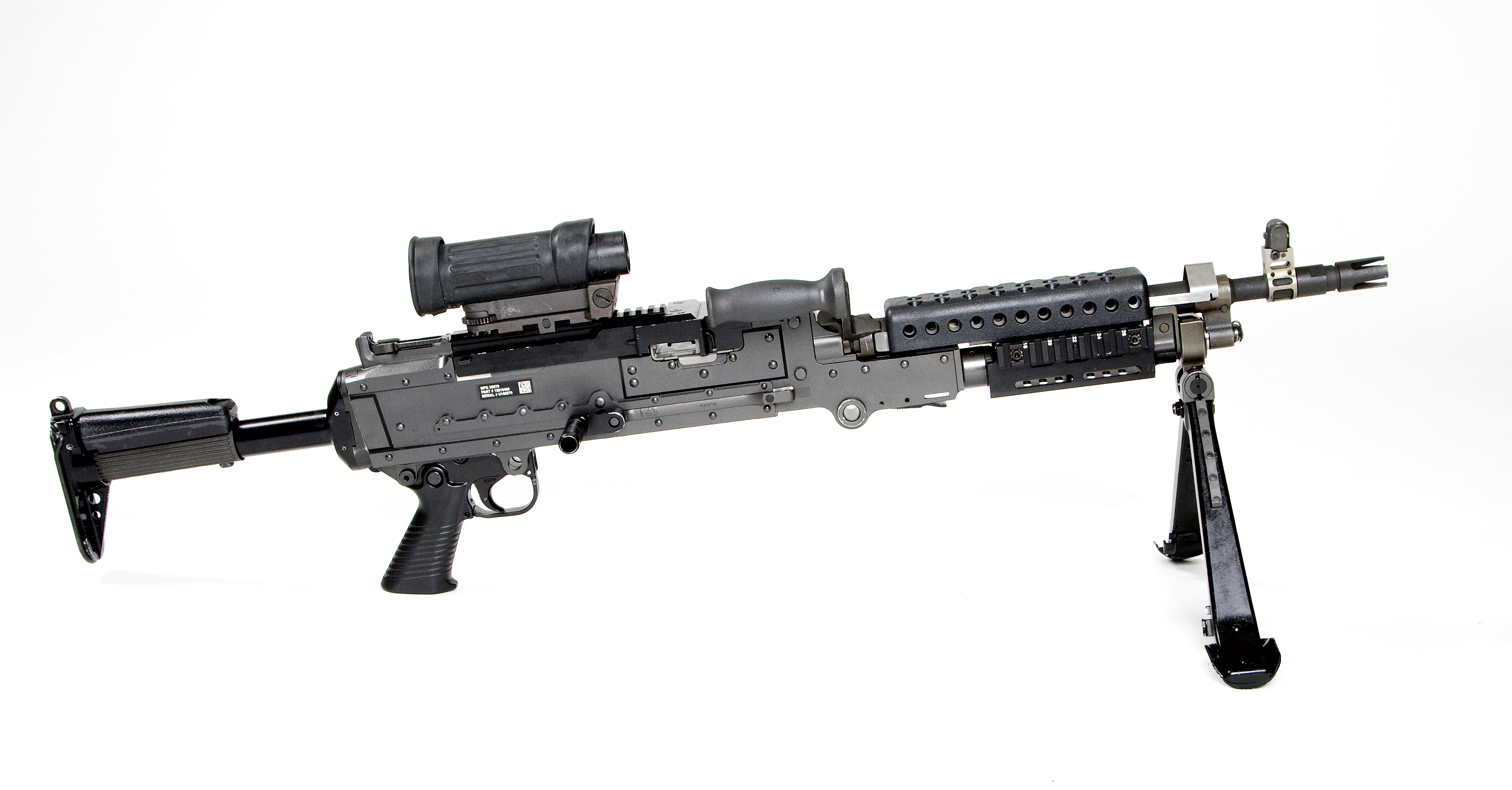 M240L 7.62mm Medium Machine Gun (Light).